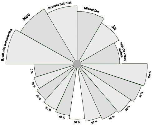 A Shuttle Map for use with shuttle for divination similar to dowsing